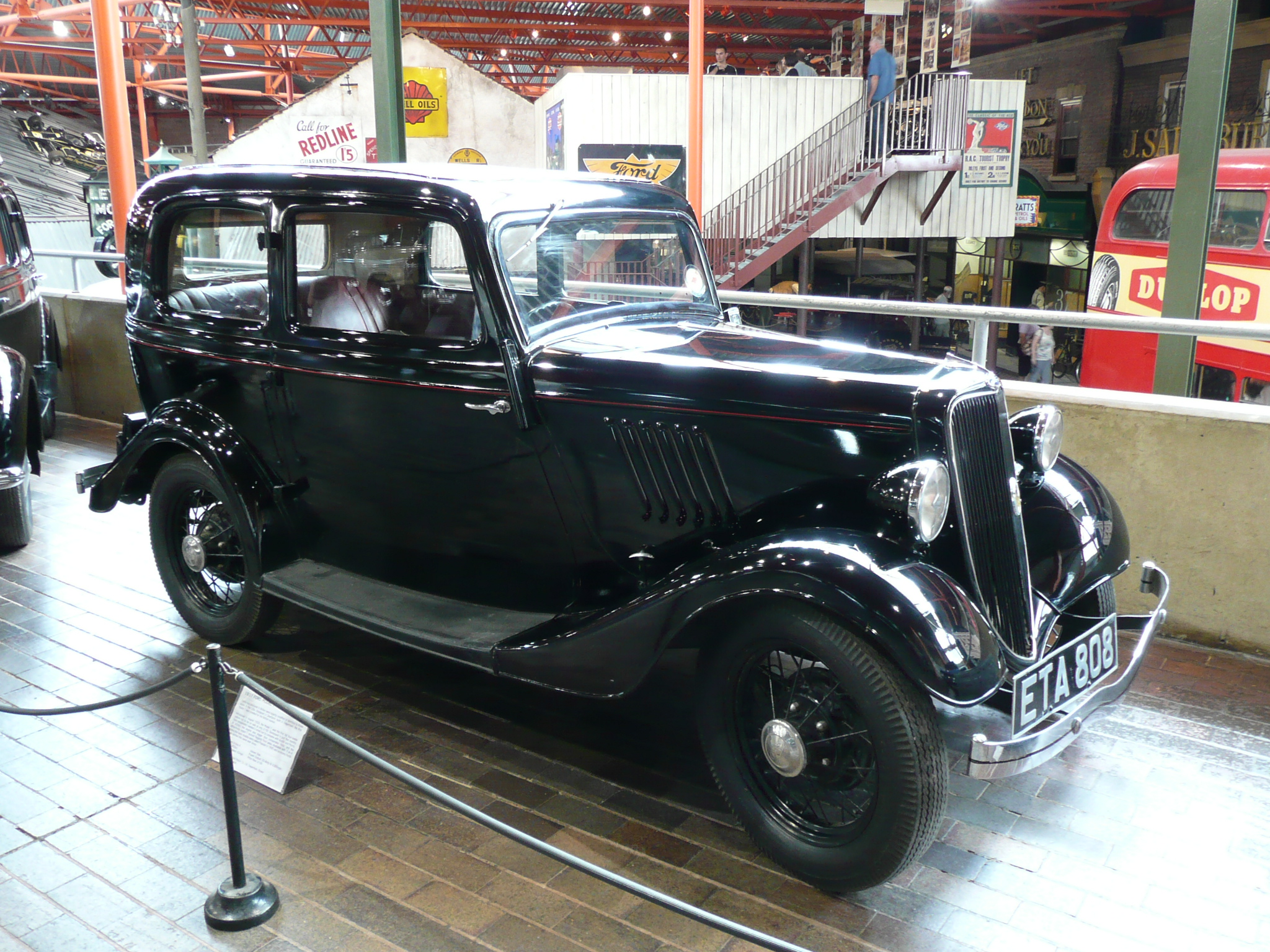 1937 Ford Model Y, National Motor Museum in Beaulieu.